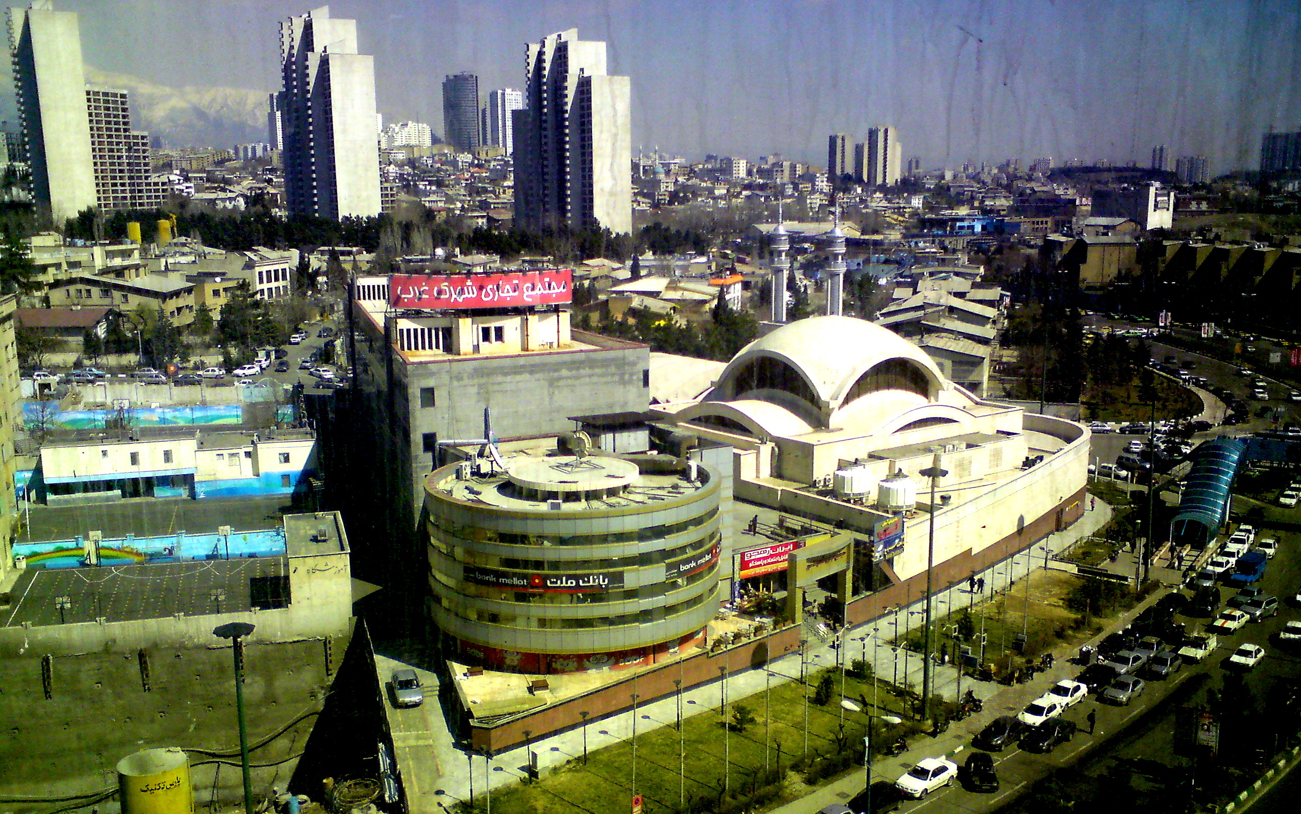 Shahrak Gharb area, Tehran, Iran